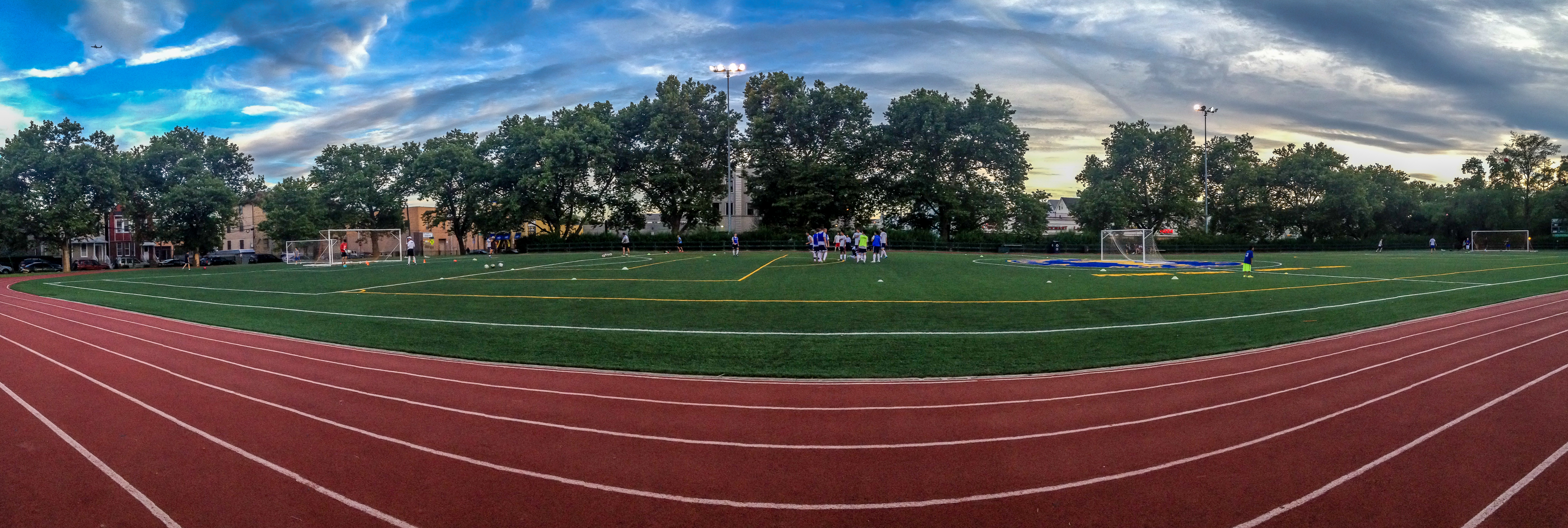 Riverbank Park, Roughly bounded by Van Buren, Market, and Somme Sts., and Passaic R. Newark